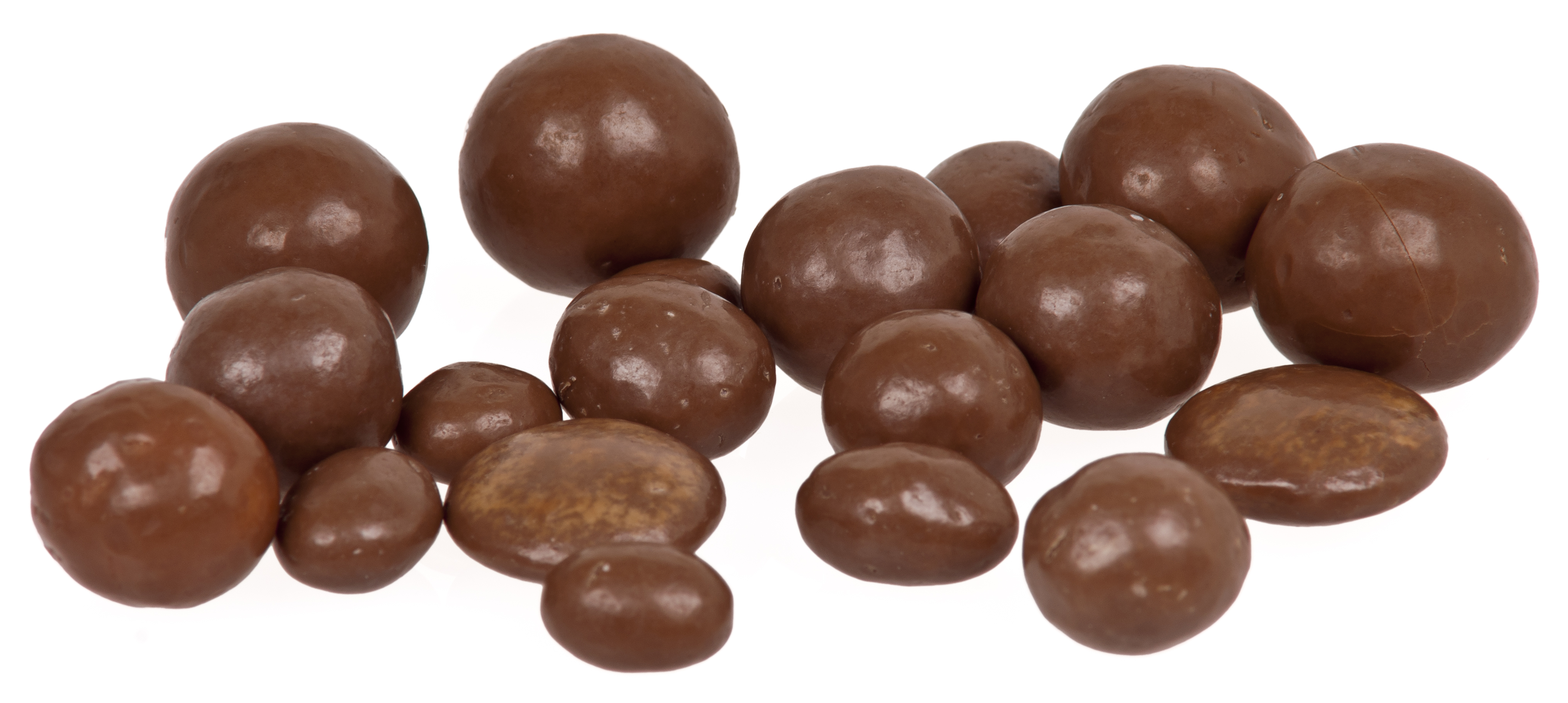 A pile of Revels confections, made by Mars and sold in the UK.